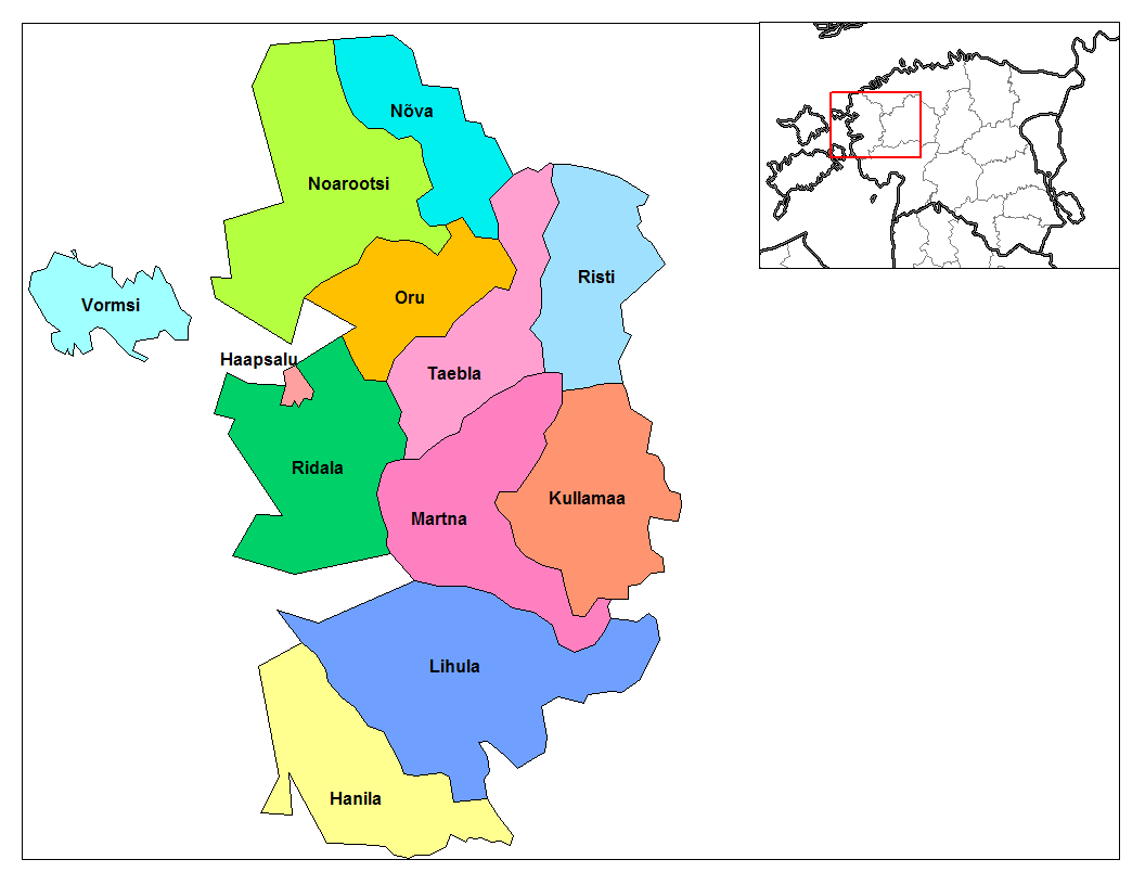 Map of the municipalities of Laane county in Estonia. Created by Rarelibra 17:33, 22 December 2006 (UTC) for public domain use, using MapInfo Professional v8.5 and various mapping resources.